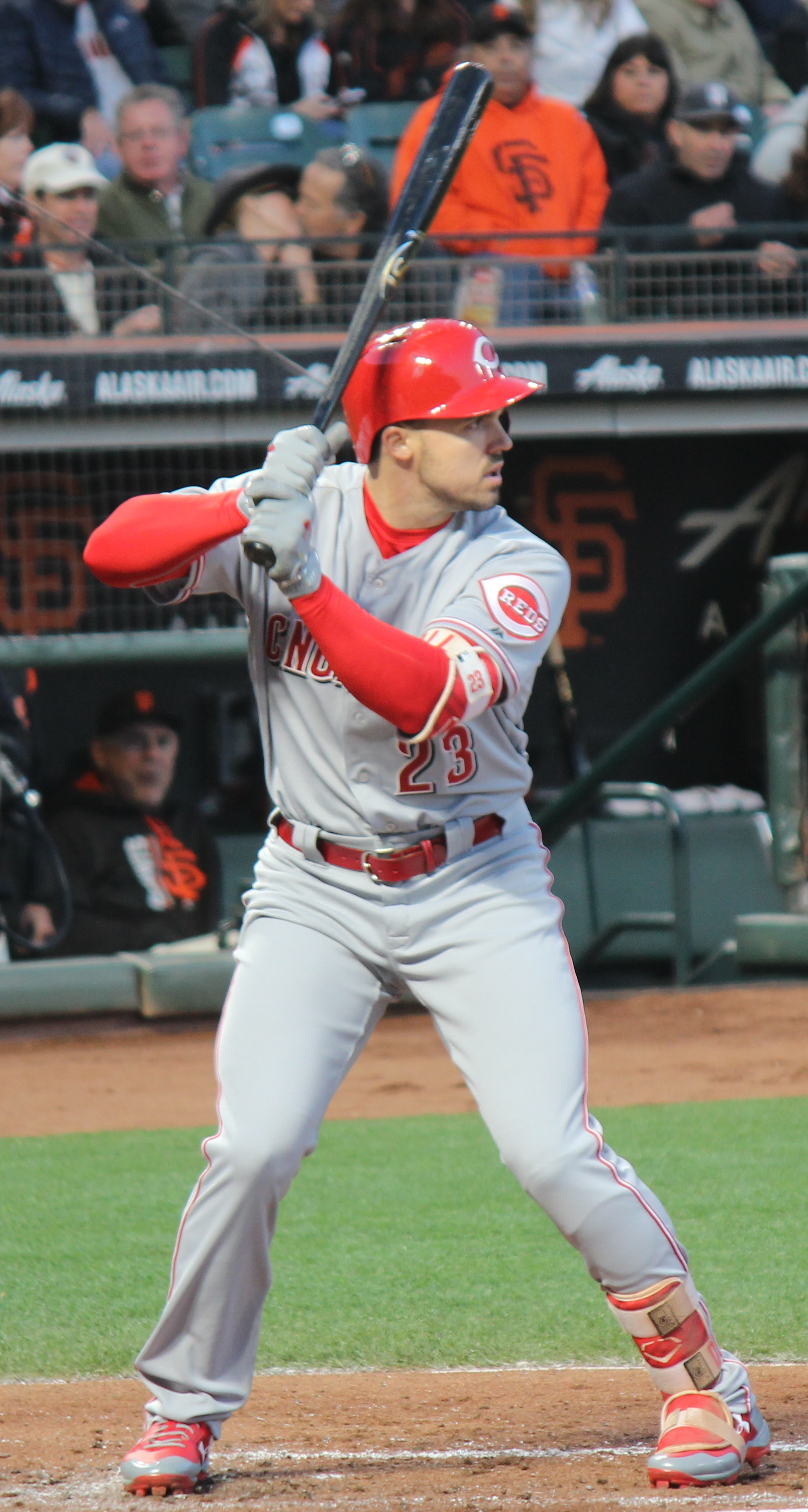 Photo of Adam Duvall playing against the San Francisco Giants on May 12, 2017